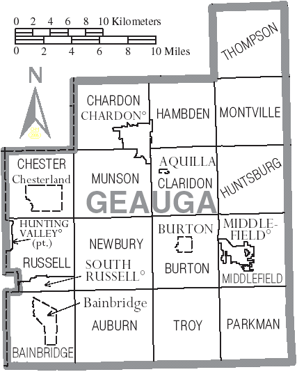 Map of Geauga County, Ohio, United States with township and municipal boundaries